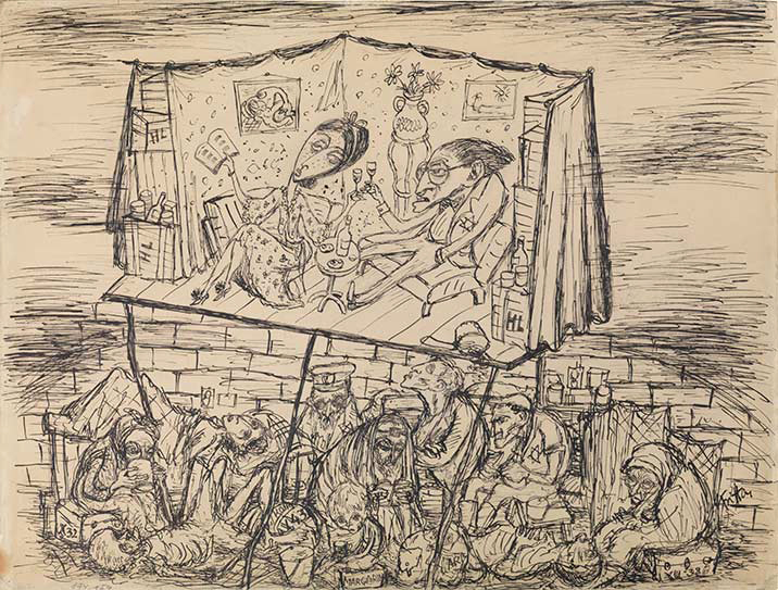 Art work from the Theresienstadt ghetto